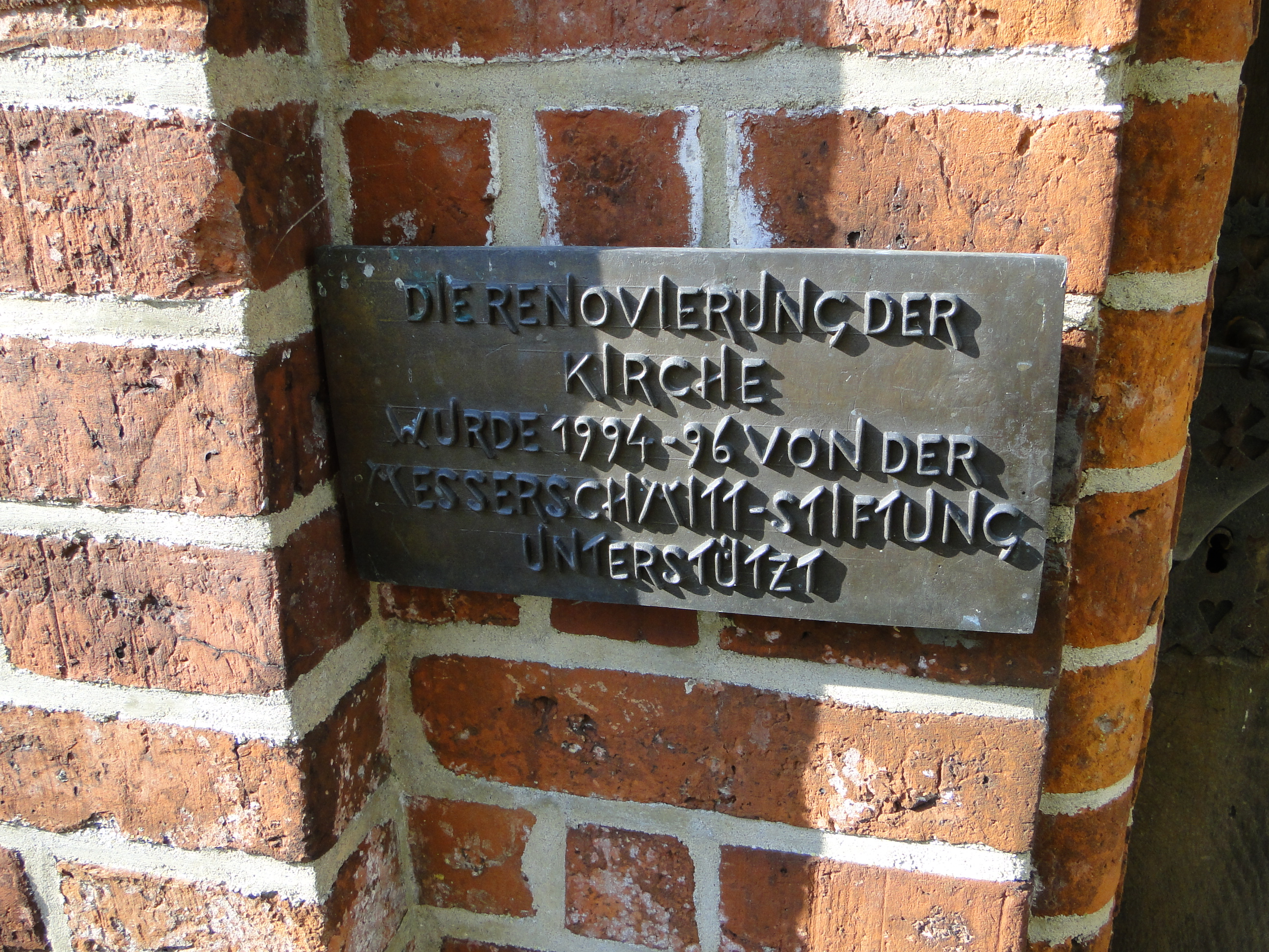 Sign at church in Ruest, district Parchim, Mecklenburg-Vorpommern, Germany